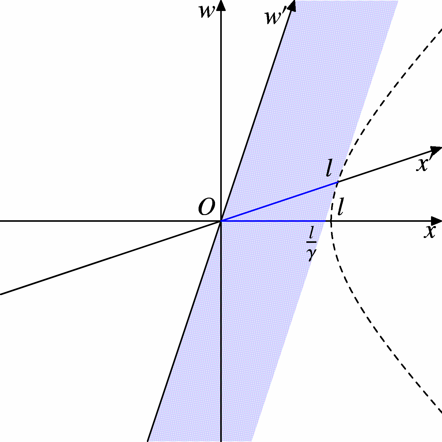 a graph for explanation of Lorentz contraction Source=Spirituelle's file by Metapost